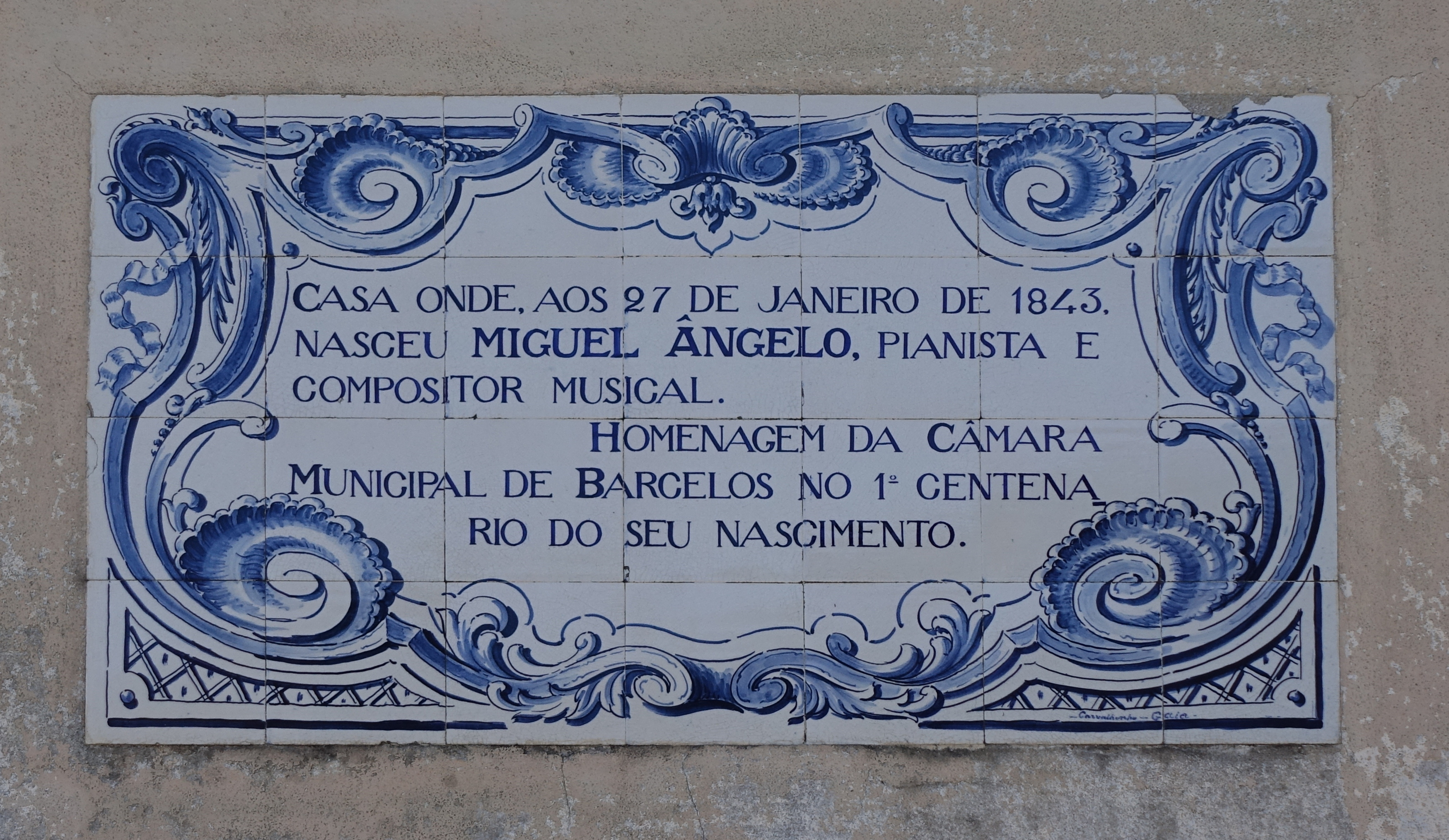 Plaque in the house where Miguel Ângelo composer is born, in Barcelos Portugal.